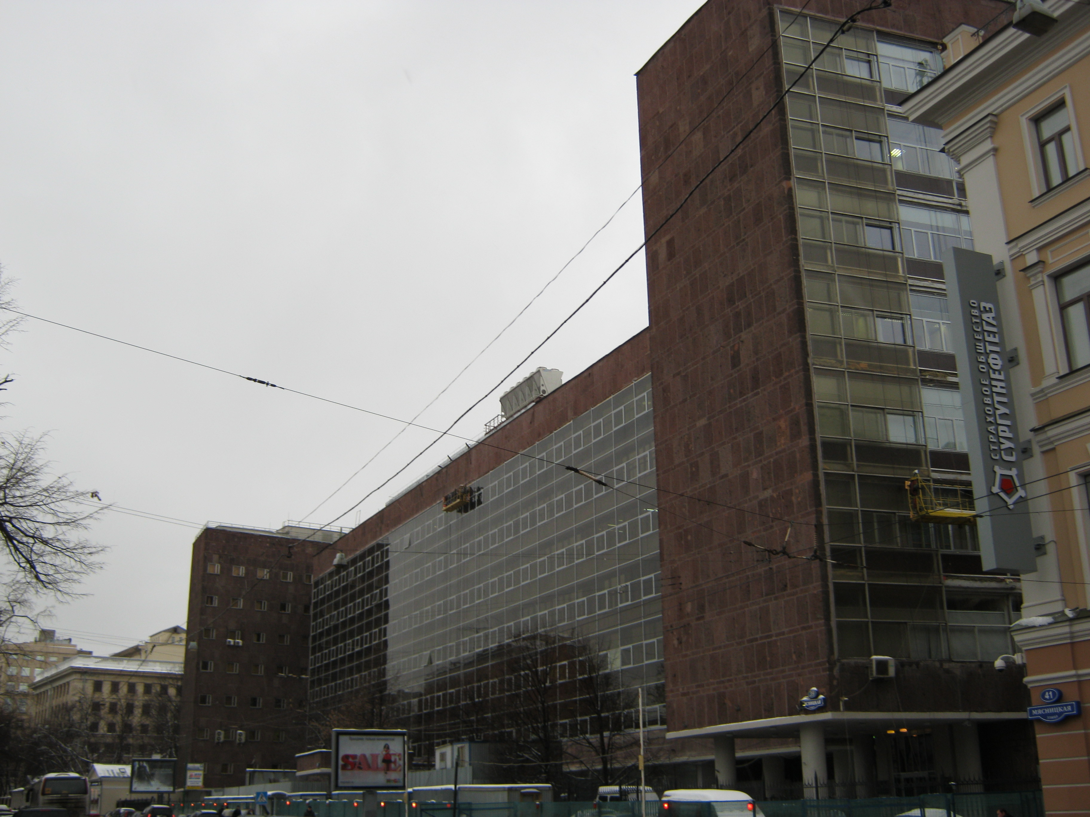 The Tsentrosoyuz building (Centrosoyuz Building) — in Moscow. Designed by French Modernist architect Le Corbusier and Russian Constructivist architect Nikolai Kolli between 1926 and 1933.